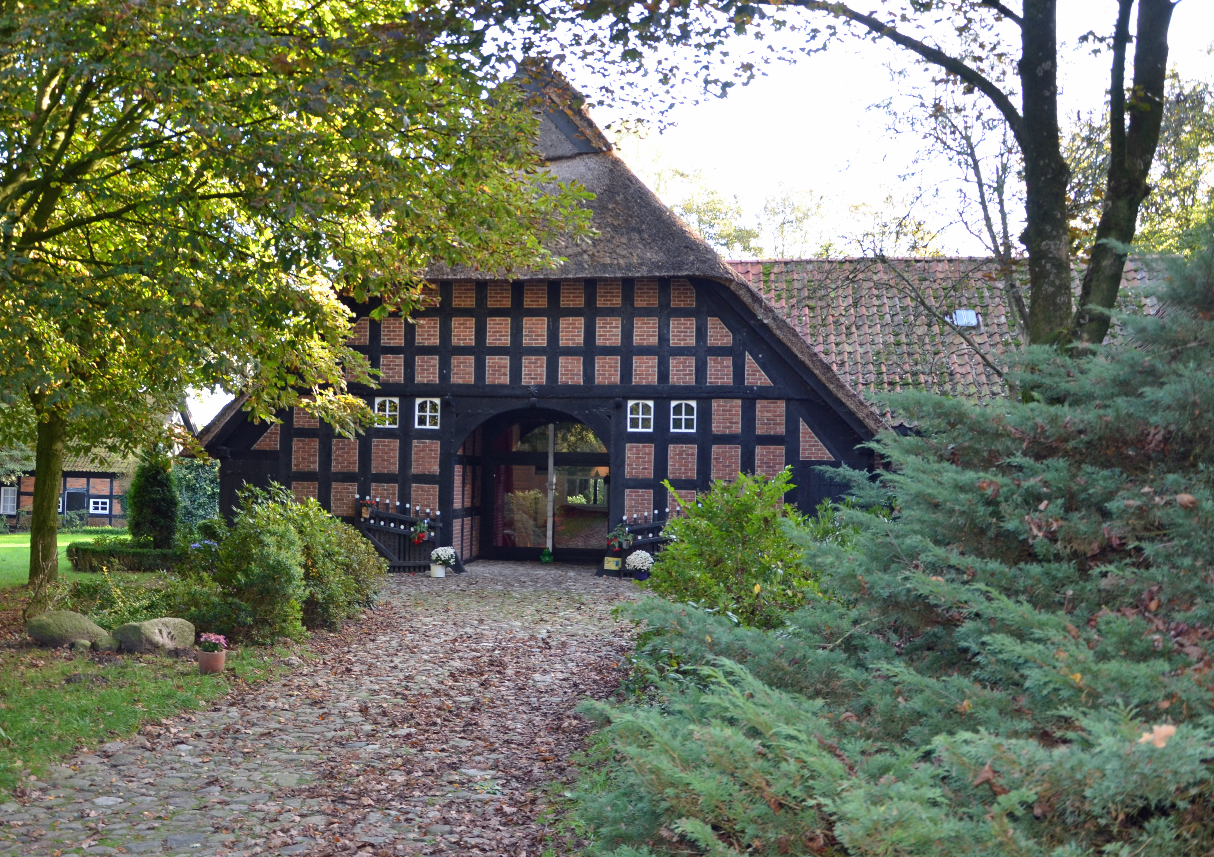 Cultural Heritage Bassum